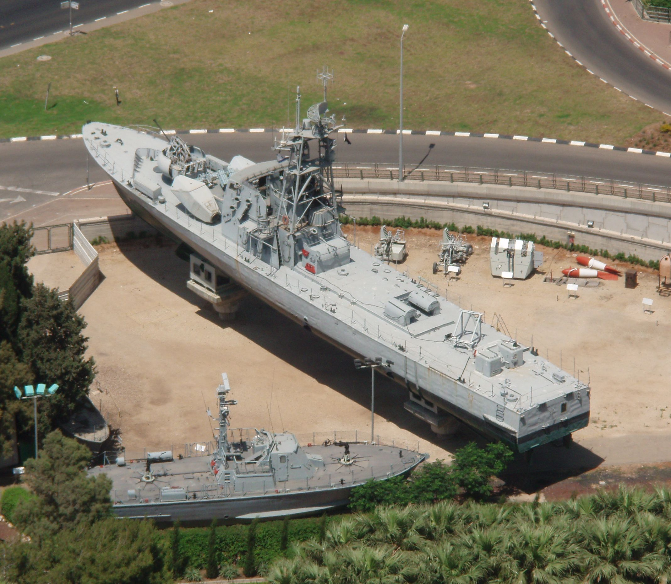 INS Mivtach (311) missile boat (Saar 1 converted to Saar 2 class) and a patrol boat in the Clandestine Immigration and Naval Museum, Haifa, Israel.